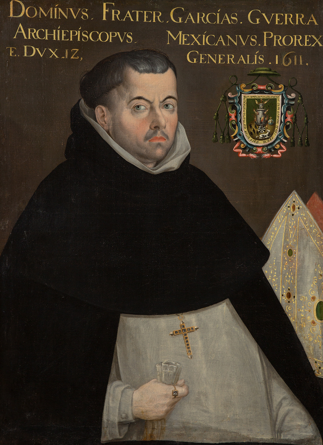 Archibishop Fray García Guerra